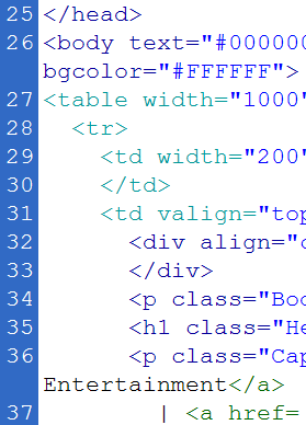 source code HTML. Image by Derek Jensen (Tysto), 2006-January-15